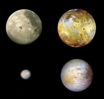 Size comparison among not-planetary terrestrial bodies of the Solar System. The Moon, Io and Europa are primarily composed of silicate rocks and are commonly classified among terrestrial bodies.[1] Some astronomers also included Ceres in the list,[2] while others do not because of its low density.[3]